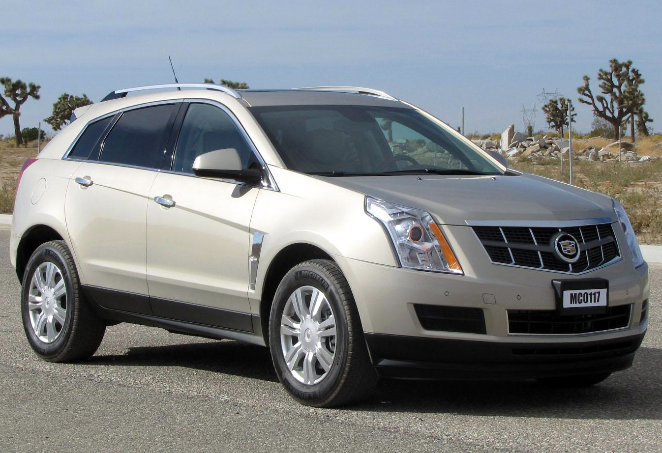 2012 Cadillac SRX photographed in USA.